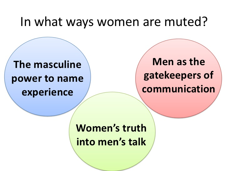 Muted Graphic